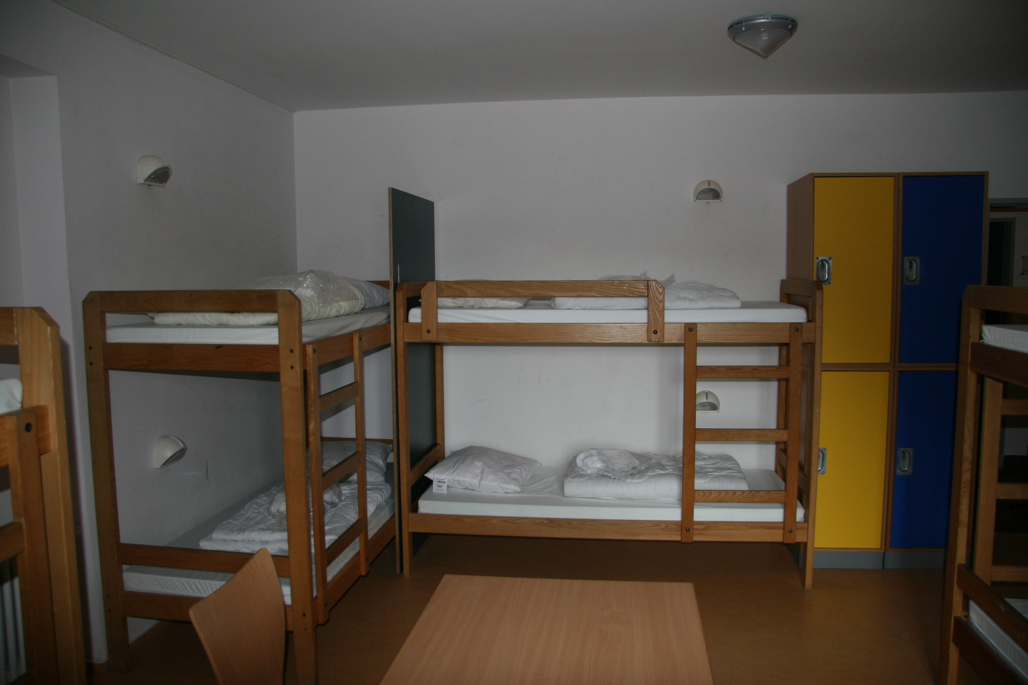 Room in the Youth Hostel in Vianden, Luxembourg